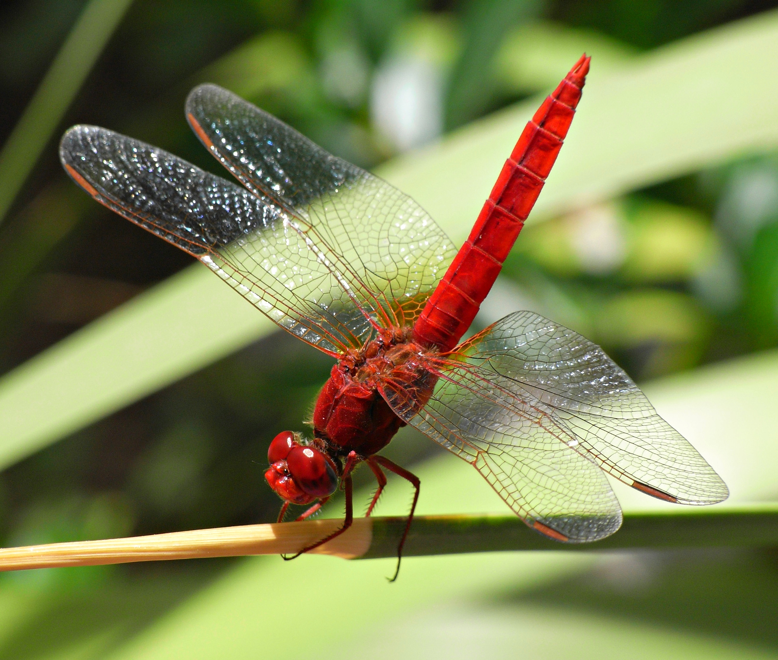 Male specimen of Crocothemis erythraea.